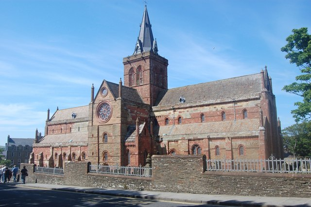 St Magnus Cathedral, Kirkwall.